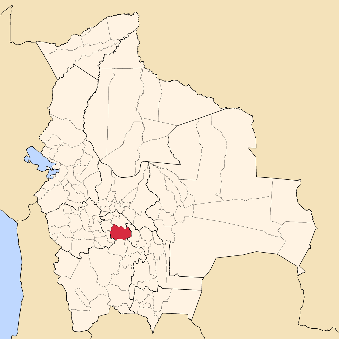 Map of Bolivia showing Chayanta province, Potosí